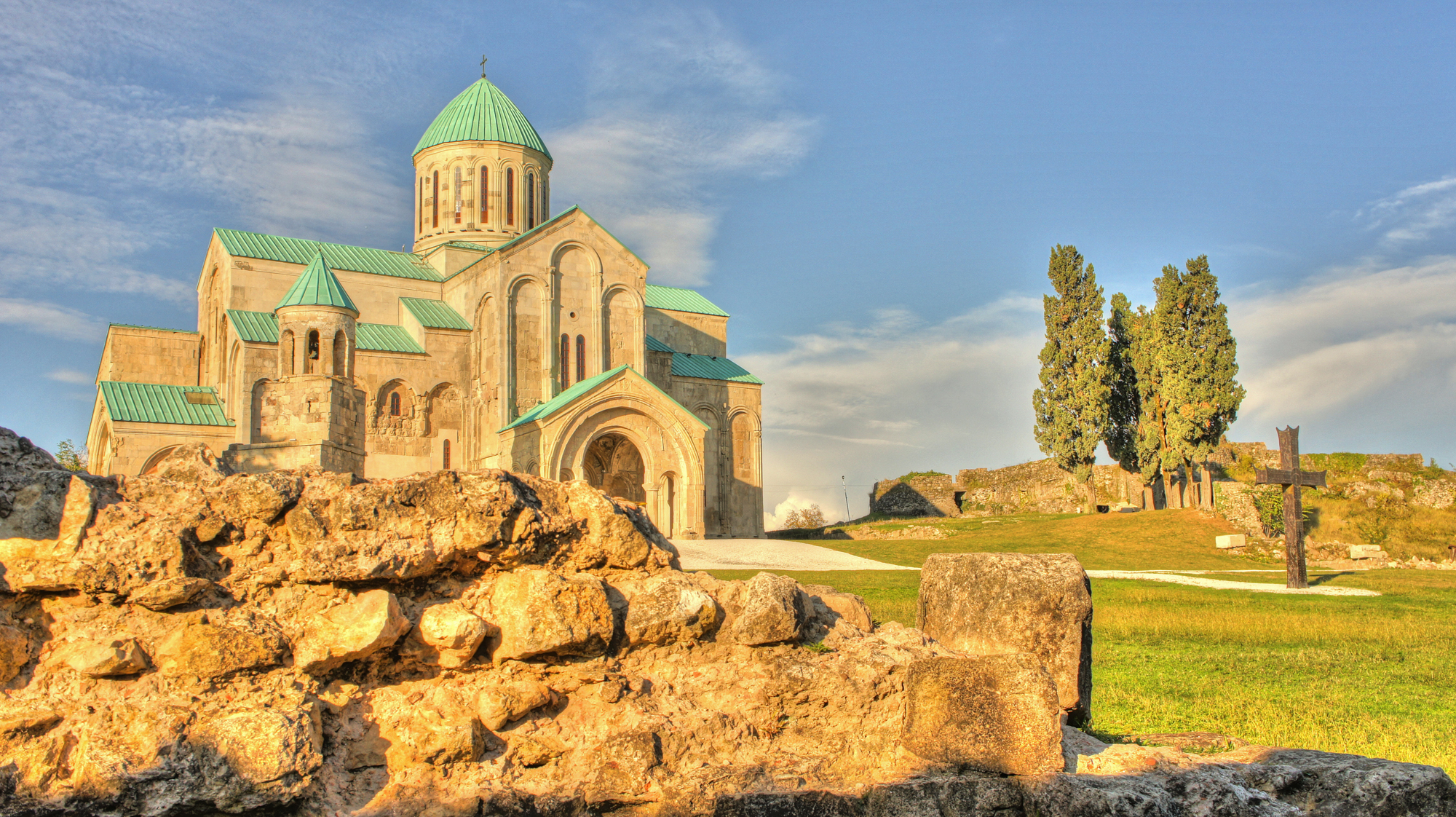 Bagrati Cathedral after restoration